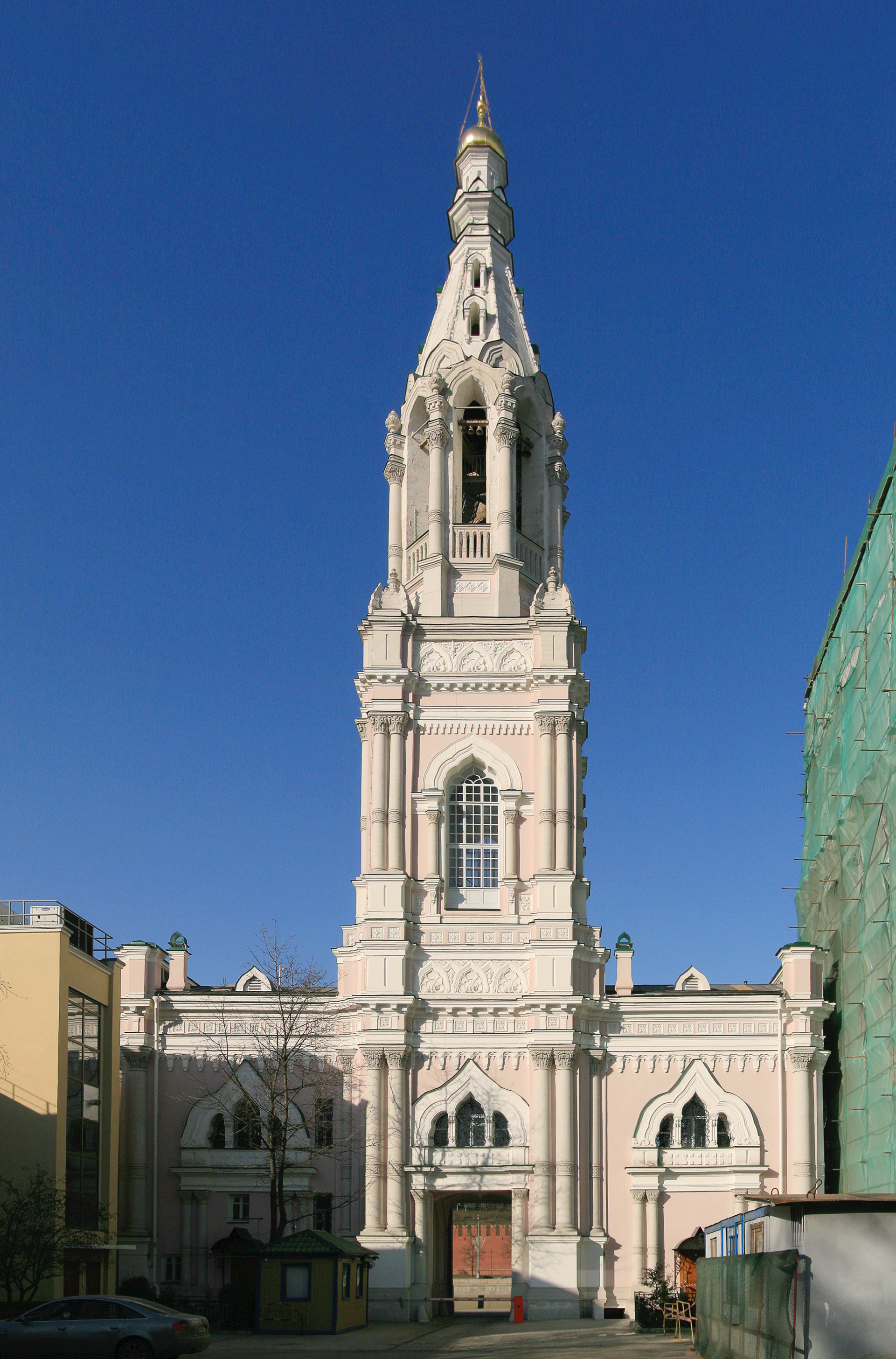 Church of Sophia, Sofiyskaya Embankment, Moscow